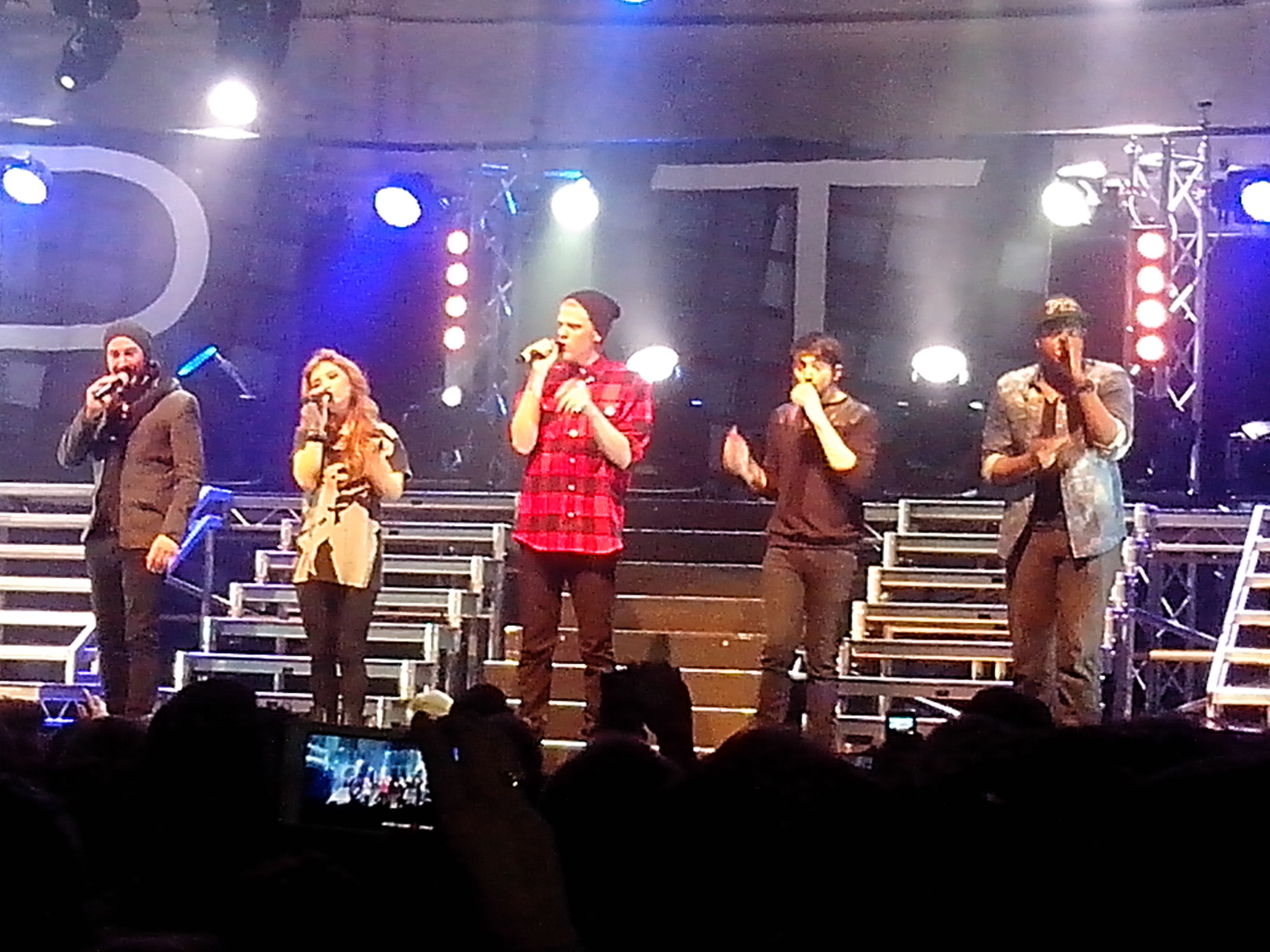 Pentatonix in Paradso 30th of April 2014